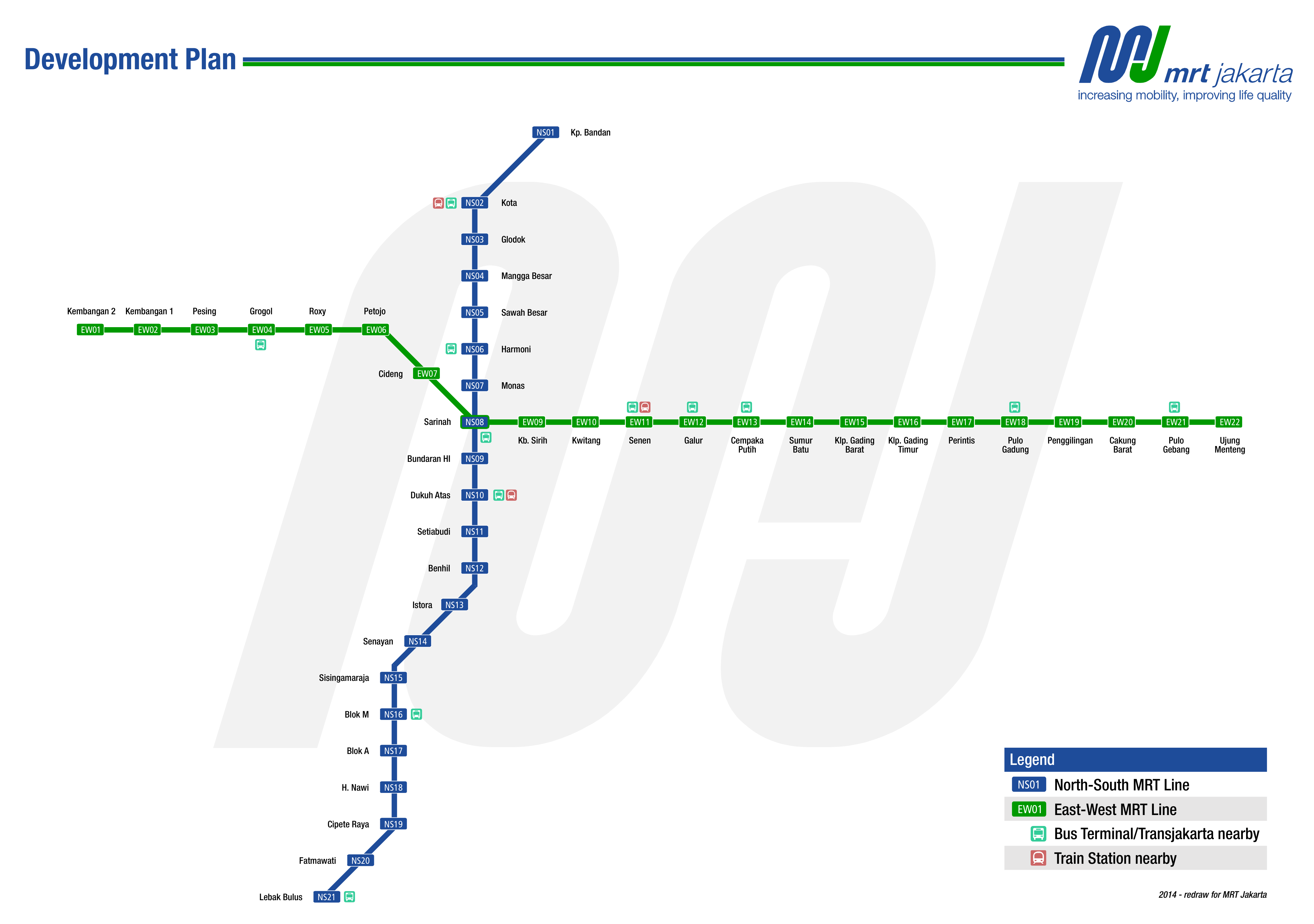 MRT Jakarta line/corridor route plan